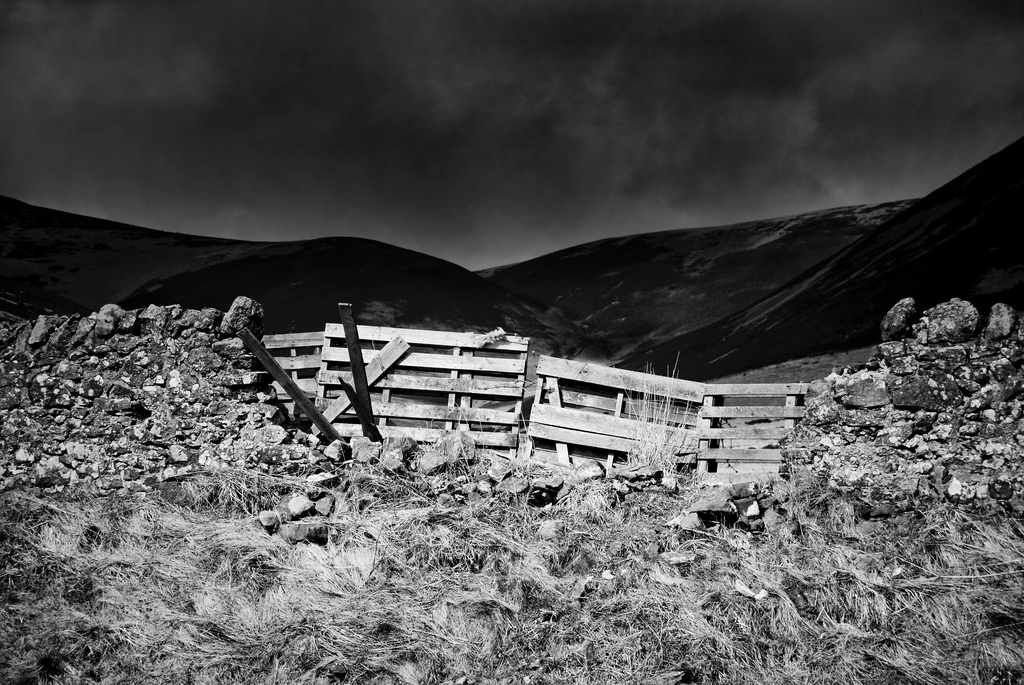 A landscape view of a gate by the A701 road from Edinburgh, scotland. Looking at the Pentland hills. shot in black and white